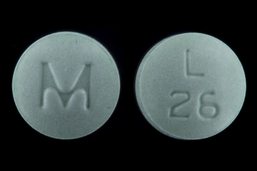 Drug Name: Lisinopril 40 MG Oral Tablet Ingredient(s): Lisinopril Imprint: L;26;M Color(s): Green Shape: Round Size (mm): 8.00 Score: 1 Inactive Ingredient(s): ShowHide silicon dioxide / croscarmellose sodium / dibasic ... silicon dioxide / croscarmellose sodium / dibasic calcium phosphate dihydrate / magnesium stearate / mannitol / povidone / starch, corn / sodium lauryl sulfate / fd&c blue no. 2 / d&c yellow no. 10 Drug Label Author: Mylan Pharmaceuticals Inc. DEA Schedule: Non-scheduled